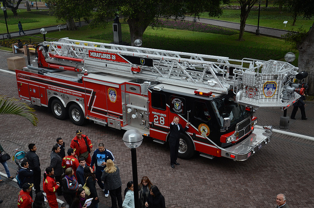 Platform Miraflores 28